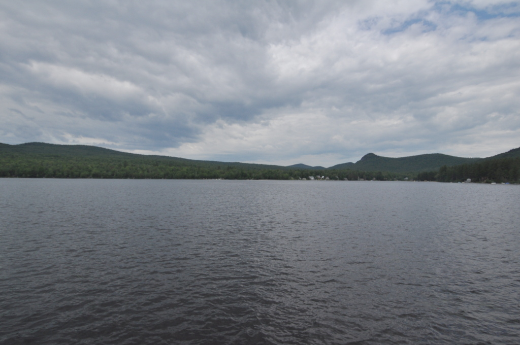 Stillwater State Park, as seen across Lake Groton from Boulder Beach State Park, Groton State Forest, Vermont.